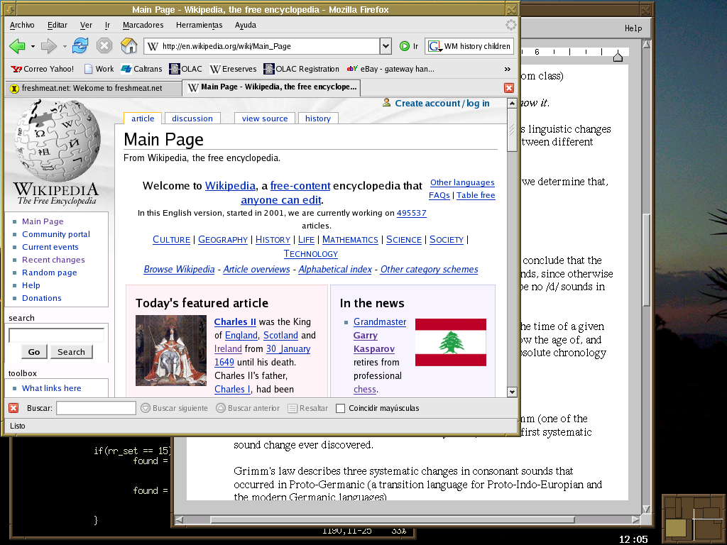 fvwm-1.24r screenshot